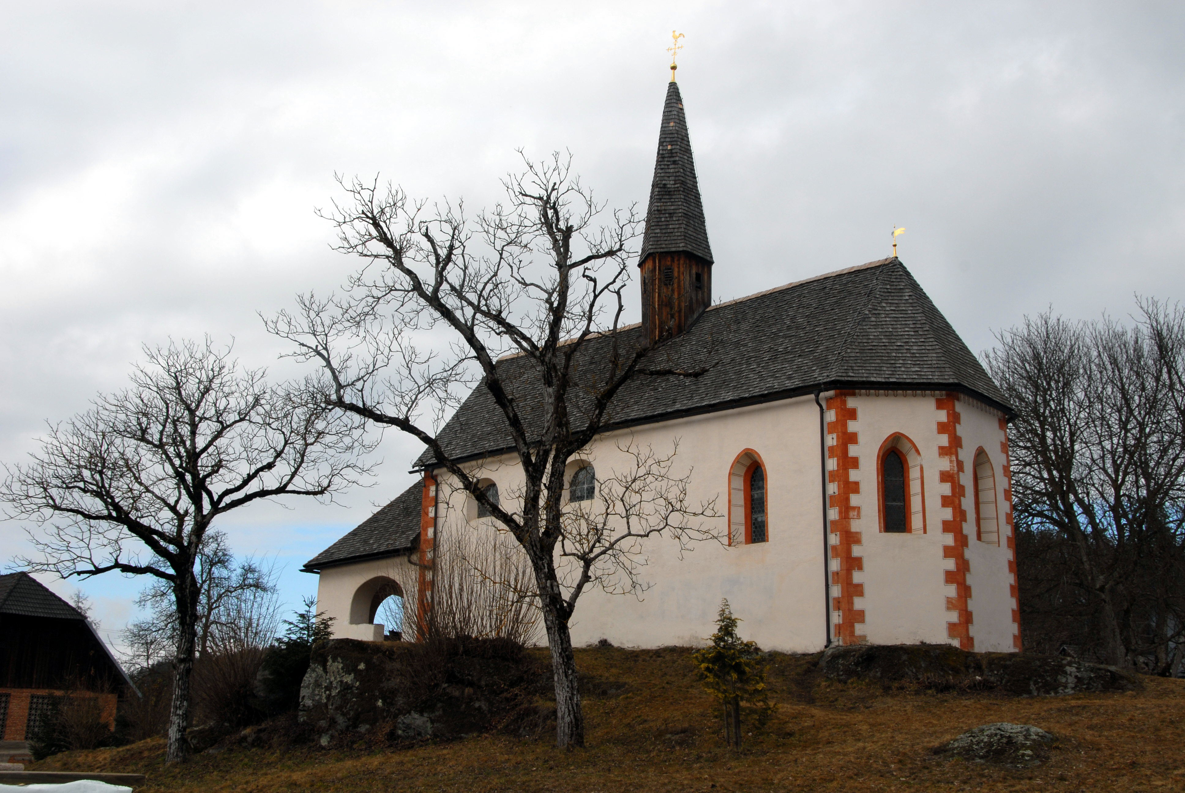 Subsidiary church Saint Nicholas at Sankt Nikolai, municipality Keutschach am See, district Klagenfurt Land, Carinthia, Austria, EU